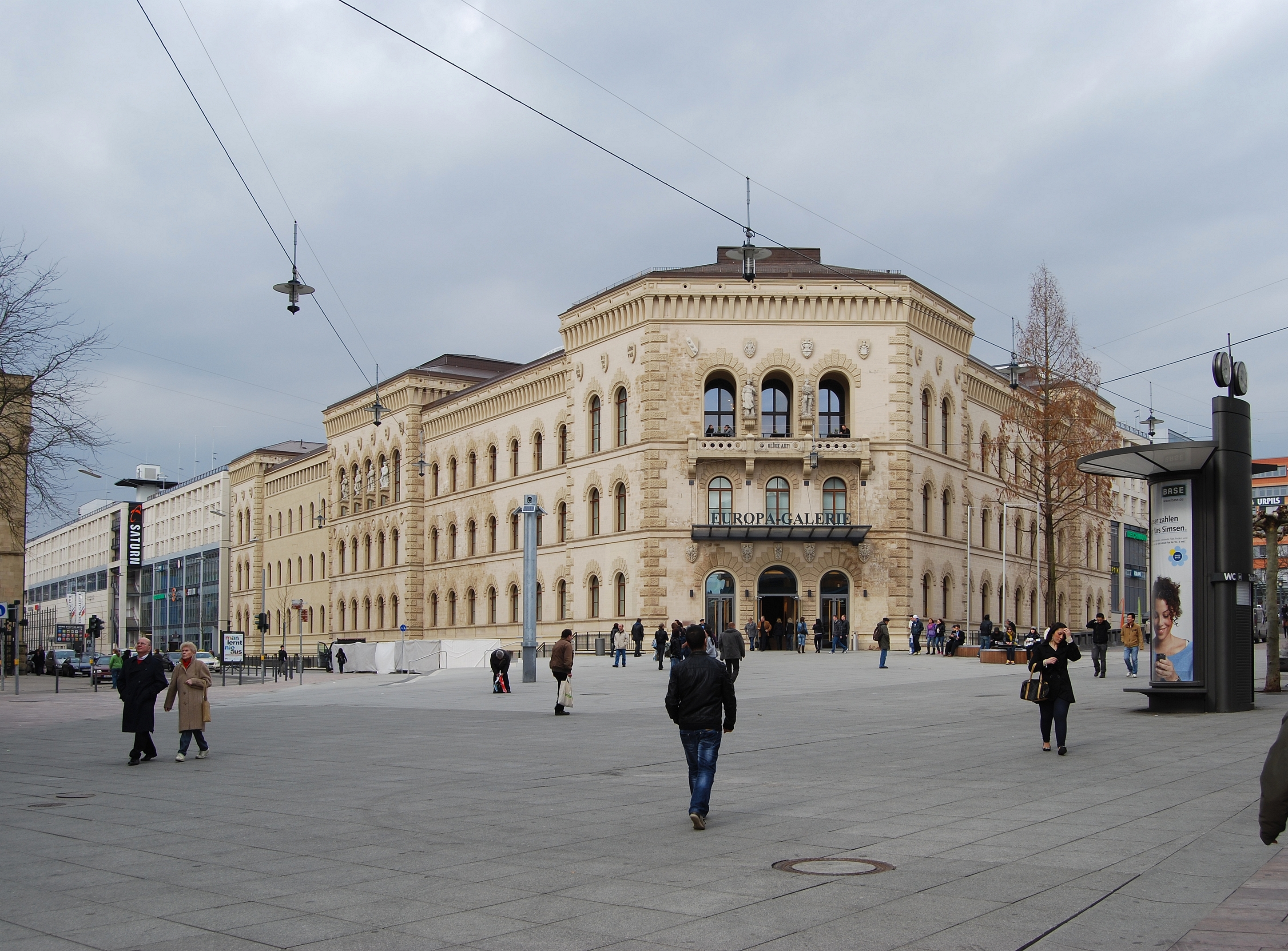 The shopping center Europa-Galerie in Saarbrücken, Saarland.